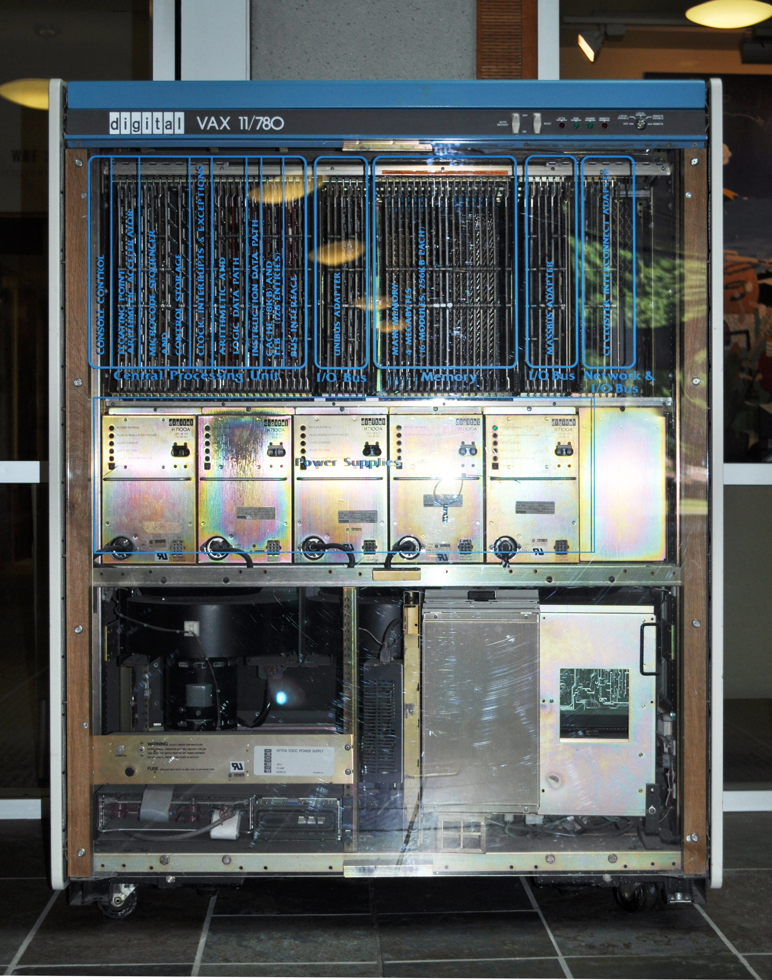 The SPEC-1 VAX, the VAX 11/780 that was used as the benchmark for the speed of each of DEC's VAXes. Now on display at the Department of Computer Science & Engineering, University of Washington, Seattle, Washington.